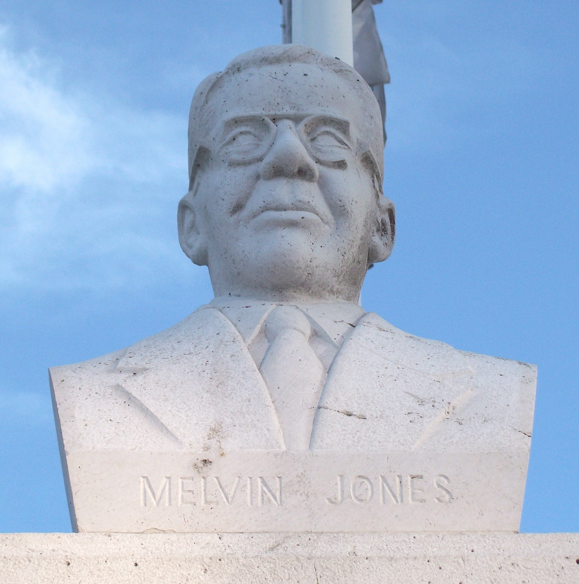 Partial view of the monument to Melvin Jones in Madrid (Spain).